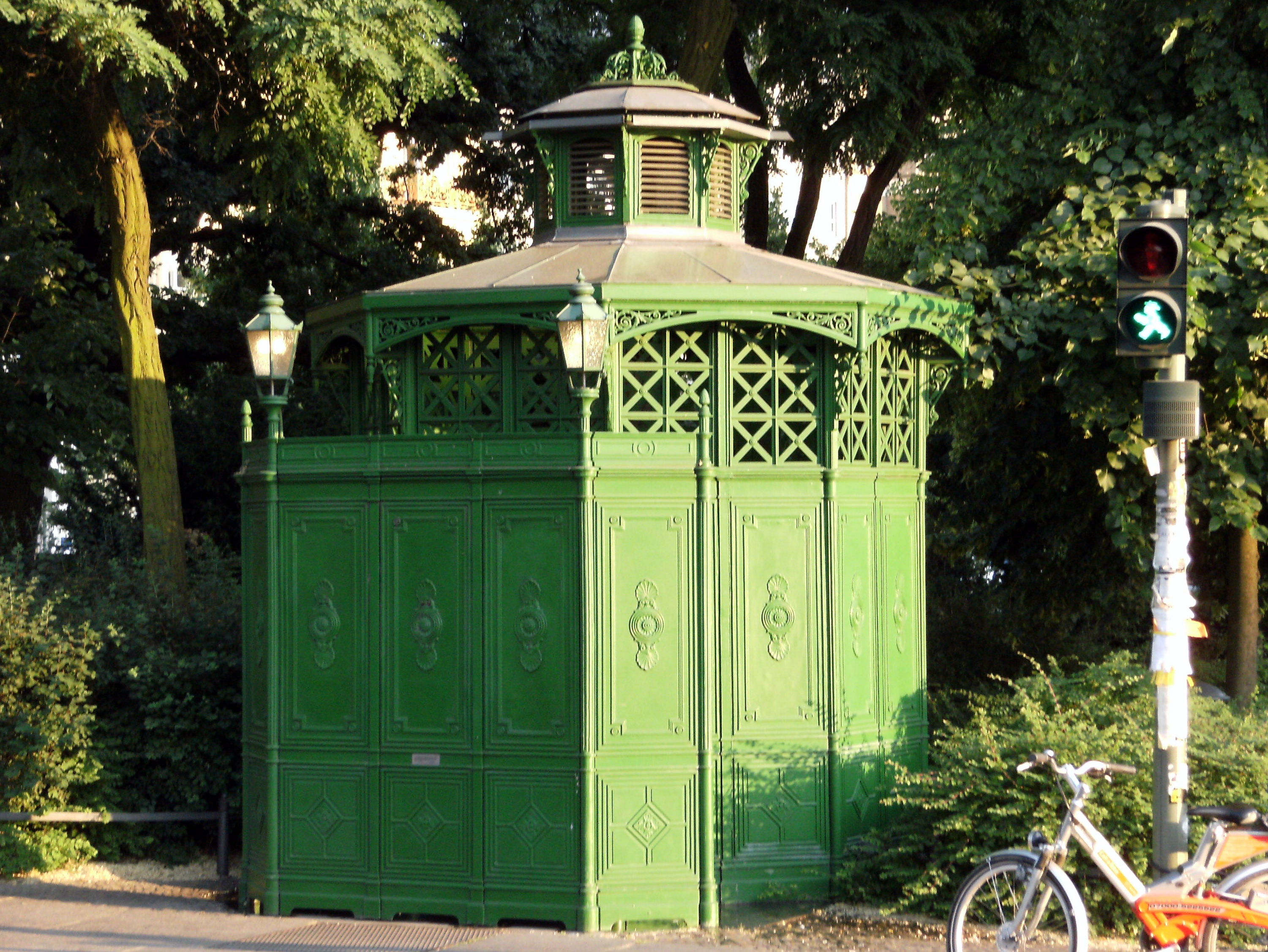 Berlin in june 2008.